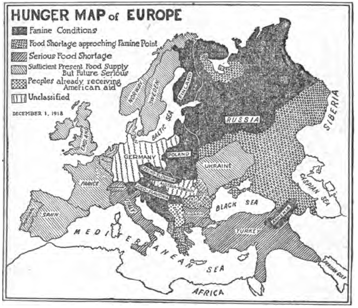 This is a map in an article published first in the newspaper, The New York Times Current History Magazine for the April-May-June 1919 (Volume X, p. 52). It shows the Hunger levels for the Europe and Ottoman Muslim casualties of World War I